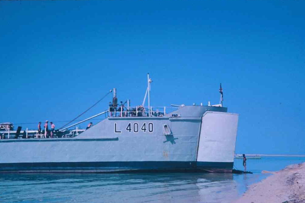 L4040 HMS Bastion - Withdrawal from Aden.